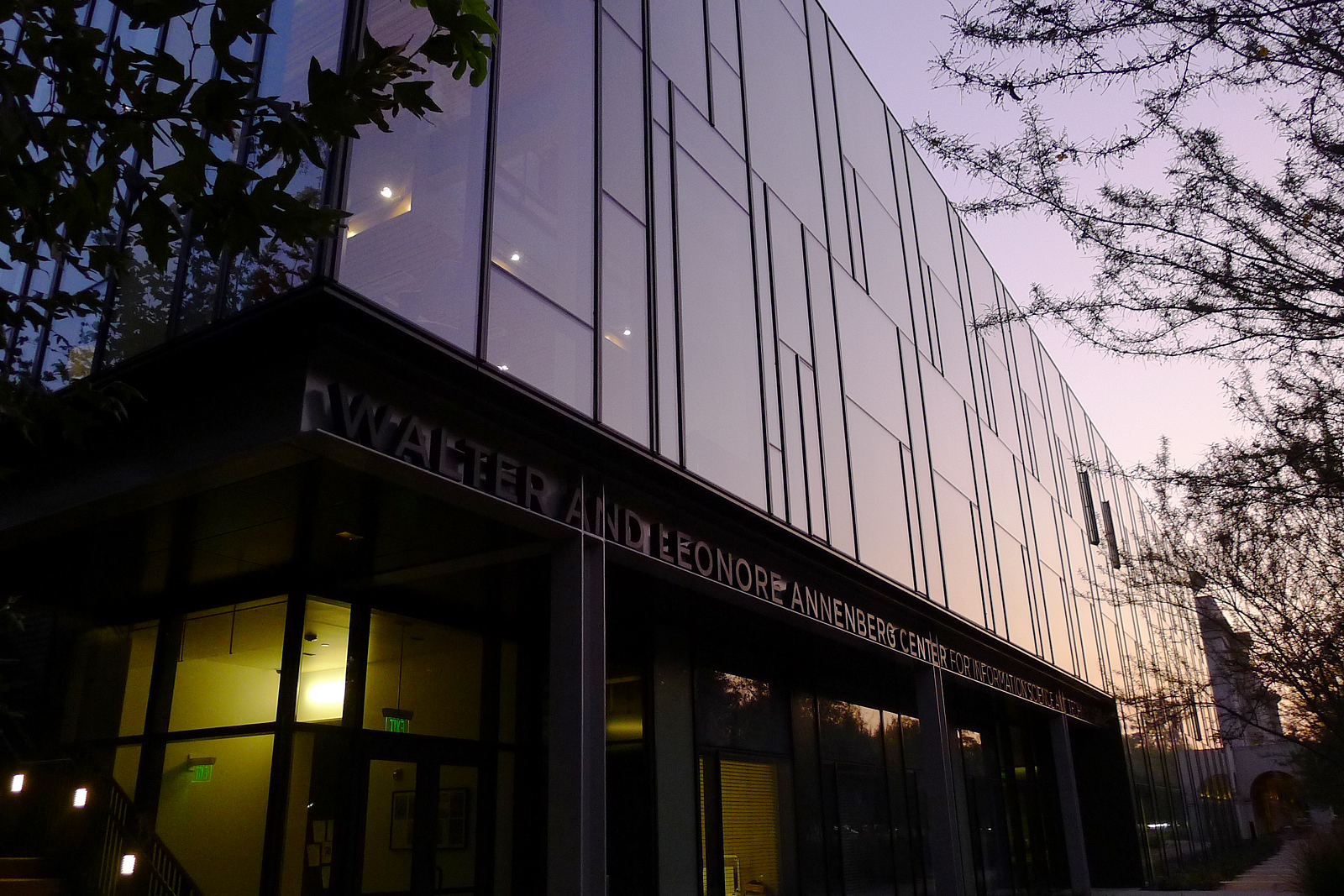 Walter and Leonore Annenberg Center for Information Science and Technology